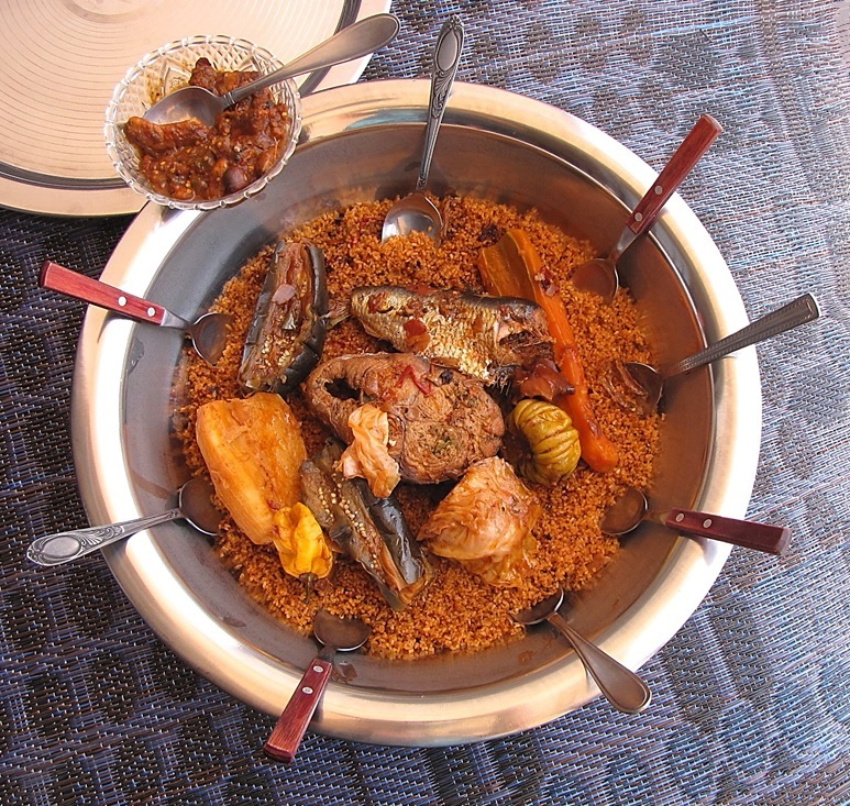 A popular variation of Thiéboudiène or ceebu jen, a traditional rice pilaf with fish dish;tomato paste provides the red to the rice, typically served with a separate bowl of spicy pepper and tamarind condiment, in a large communal platter, eaten with spoons or by hand. It is customary to garnish the rice with the large pieces of fish and vegetables to display them when serving. In addition to very recognizable common types of fish and vegetables, are the distinctive regional flavorings of African eggplant diakhatou/jaxatu (Solanum aethiopicum) fermented tamarind seed pods(Tamarindus indica), dried green hibiscus leaves, two cubes of salt-cured 'yet' (a salt-water mollusk, Cymbium marmoratum) and two pieces of 'guedj' (salted cured fish chunks). The name Thiéboudiène Boukhonk is from Wolof language, spellings vary: thiéboudiène uses the French alphabet spelling, ceebu jen is the same word using the official Senegalese alphabet spelling. Ceeb means 'rice', ceebu means 'rice with,' jen means fish. Thiéboudiène is also seen as written as two words thiébou diène Names of this popular West African dish vary between languages and countries.